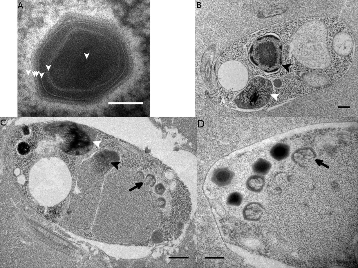 (A) Mature BsV virion: DNA containing core is surrounded by two putative membranous layers. The capsid consists of at least two proteinaceous layers. The bright halo hints to the presence of short (~40 nm) fibers as observed in ApMV. The top vertex of the virion contains a possible stargate structure (See also Figure 2—figure supplement 1). (Scale bar = 100 nm) (B) Healthy Bodo saltans cell: Nucleus with nucleolus and heterochromatin structures (Back arrow head) and kinetoplast genome (white arrow head) are clearly visible. (Scale bar = 500 nm) (C) Cell of Bodo saltans 24 hr post-BsV infection: Most subcellular compartments of healthy cells have been displaced by the virus factory now taking up a third of the cell. Virion production is directed toward the periphery of the cell (black arrow). Kinetoplast genome remains intact (white arrow head) while the nuclear genome is degraded (black arrow head; Scale bar = 500 nm) (D) BsV virion assembly and maturation: Lipid vesicles migrate through the virion factory where capsid proteins attach for the proteinaceous shell. Vesicles burst and accumulate at the virus factory periphery where the capsid assembly completes (black arrow). Once the capsid is assembled, the virion is filled with the genome and detaches from the virus factory. Internal structures develop inside the virion in the cell’s periphery where mature virions accumulate until the host cell bursts (Scale bar = 500 nm). (Deeg CM, Chow C-ET, Suttle CA (2018) The kinetoplastid-infecting Bodo saltans virus (BsV), a window into the most abundant giant viruses in the sea. eLife 7:e33014.